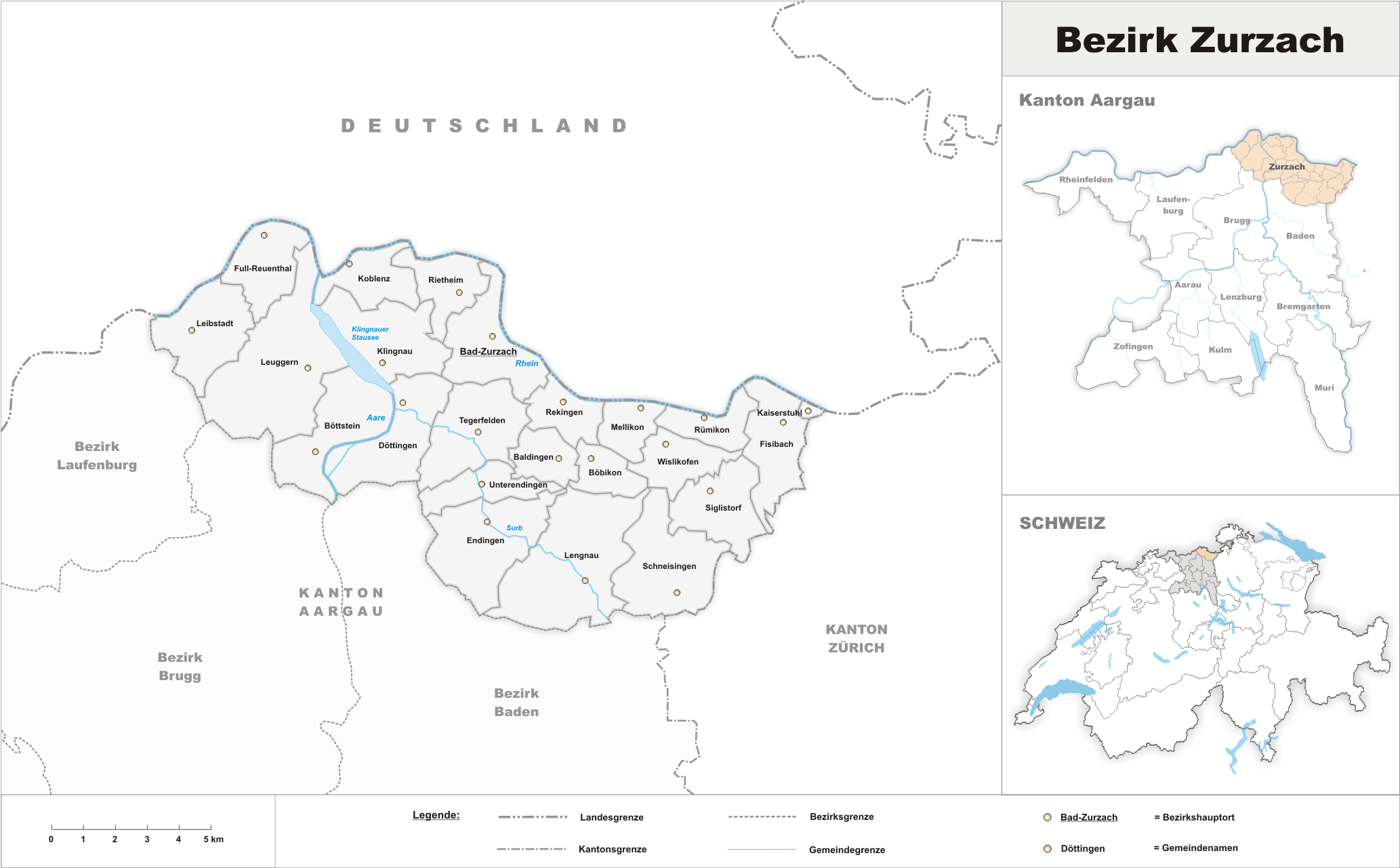 Municipalities in the district of Zurzach to 2010